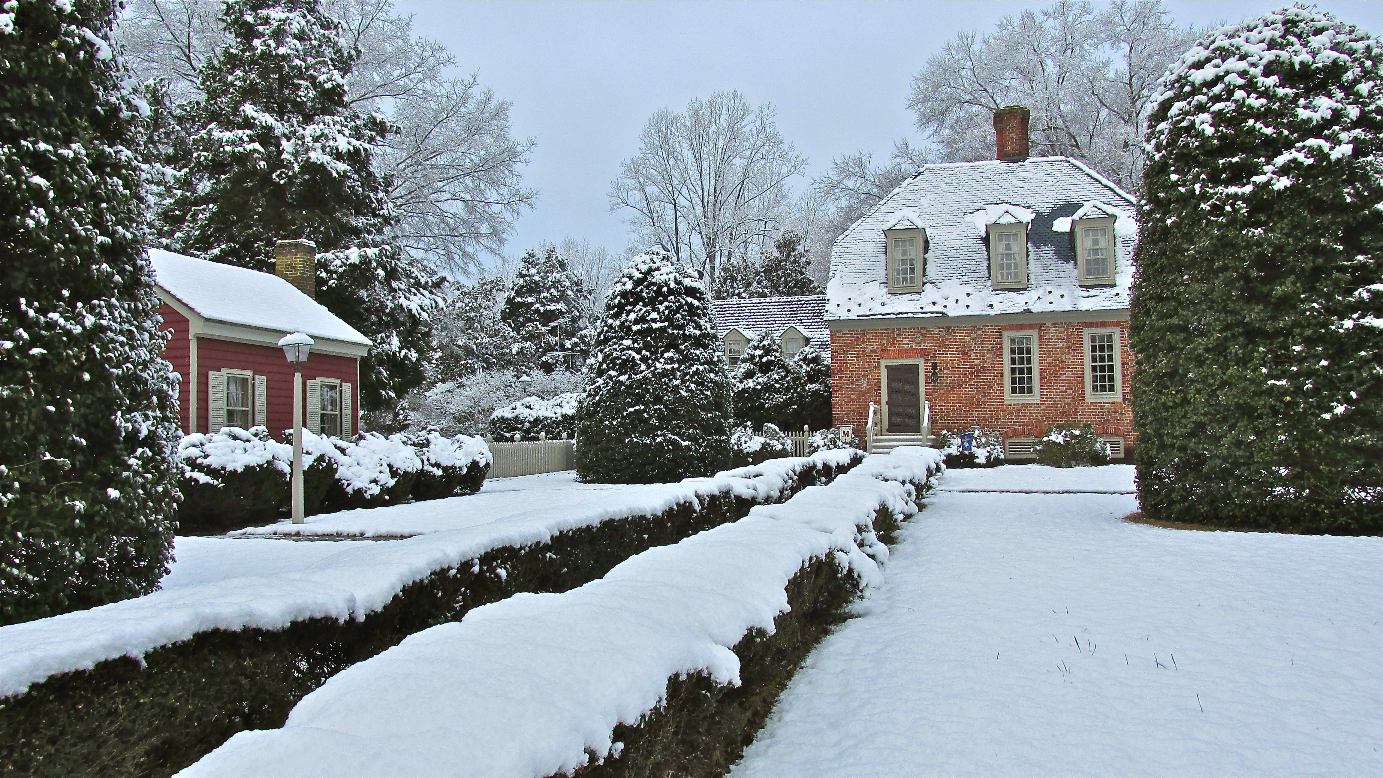 Seven Springs, after a snowfall on March 25, 2013.